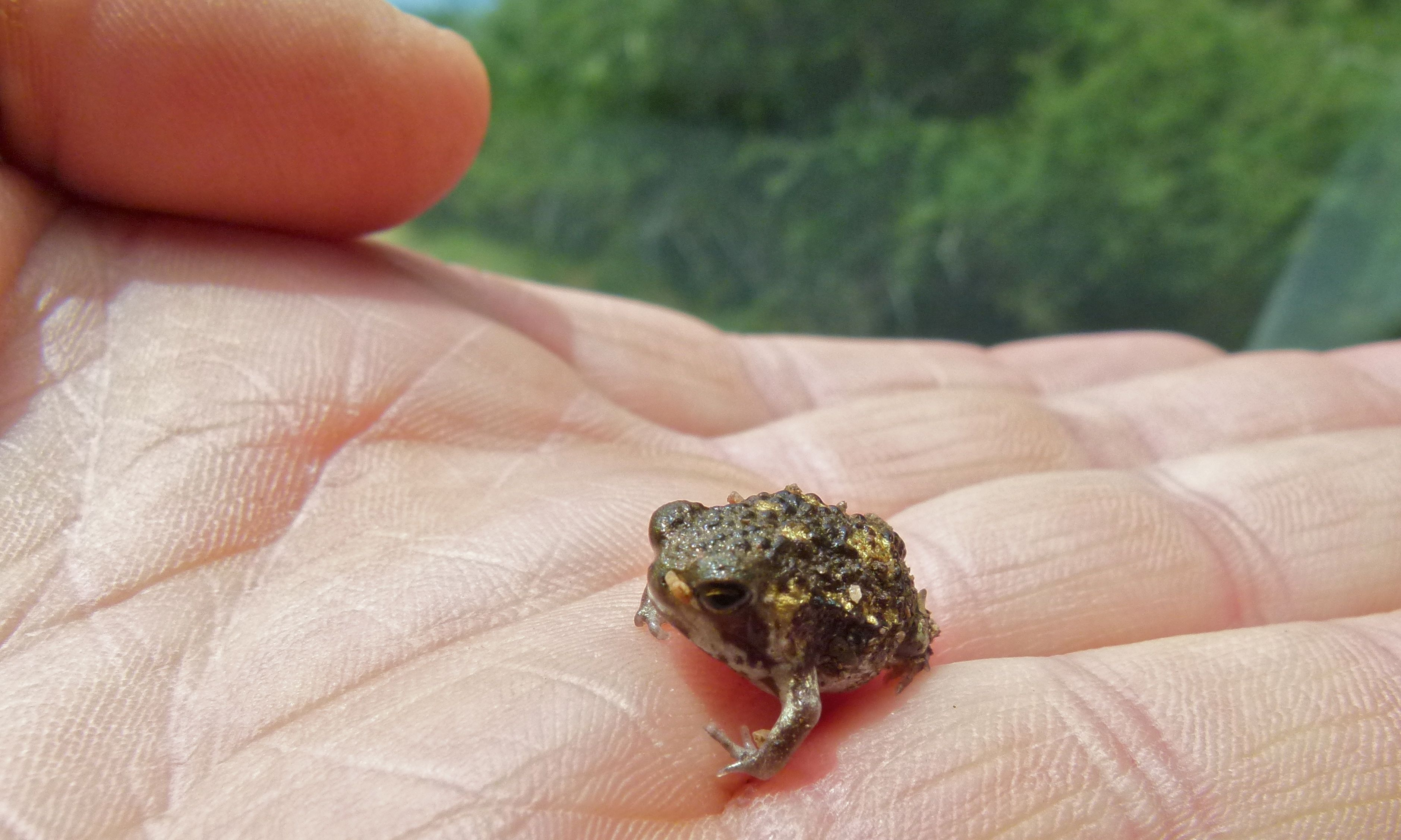 Found on the HA-2 North of Crocodile Bridge, Kruger NP, SOUTH AFRICA